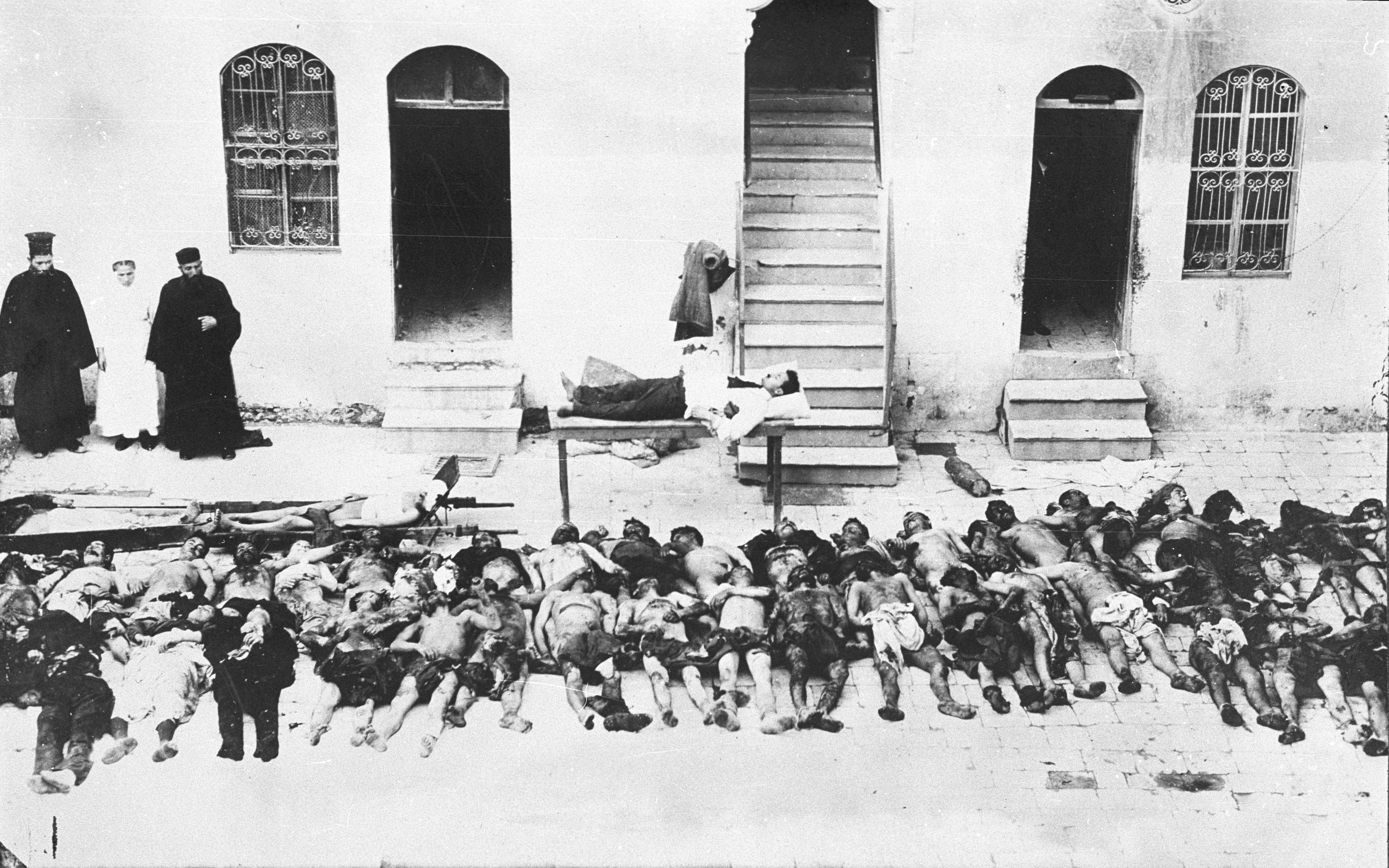 After the 1918 Armistice, Armenians who were massacred on February 28, 1919 in Aleppo, were laid out in front of the Armenian Relief Hospital. (The Independent, March 27, 1920)